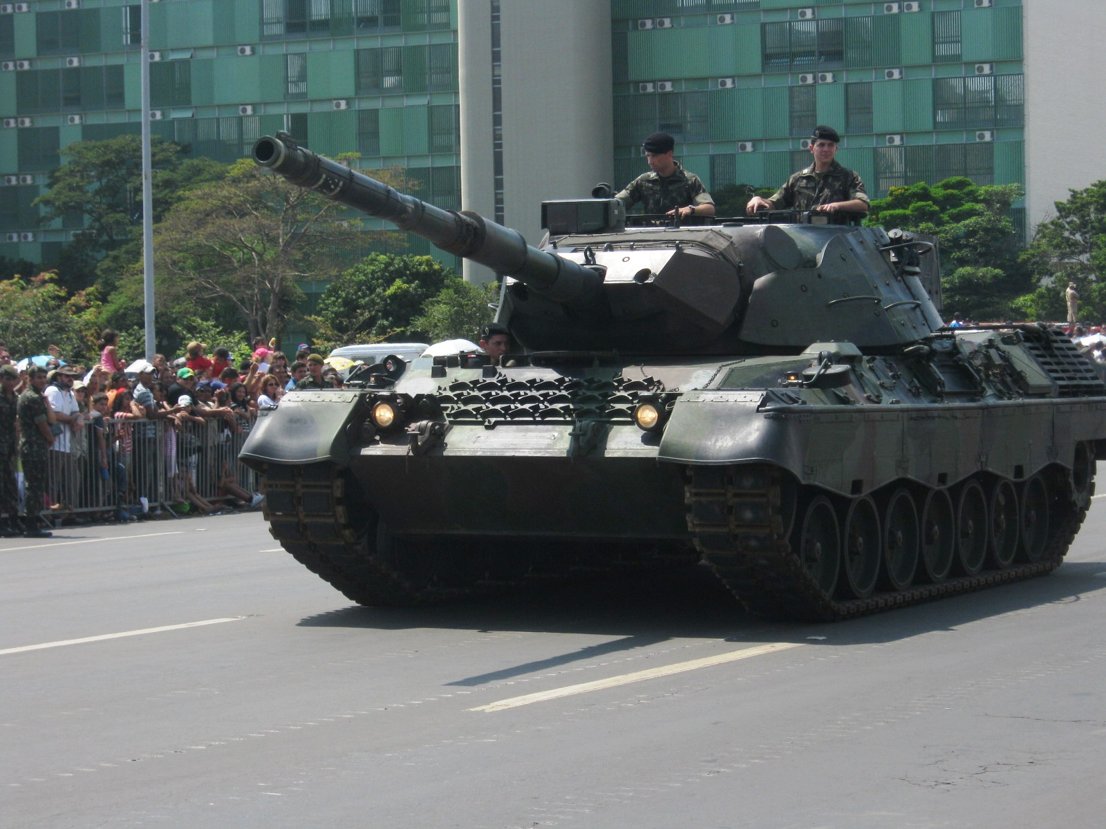 Brazilian Leopard 1 tank during the 2009 Independence Day Parade in Brasília, Brazil (September 7th, 2009).